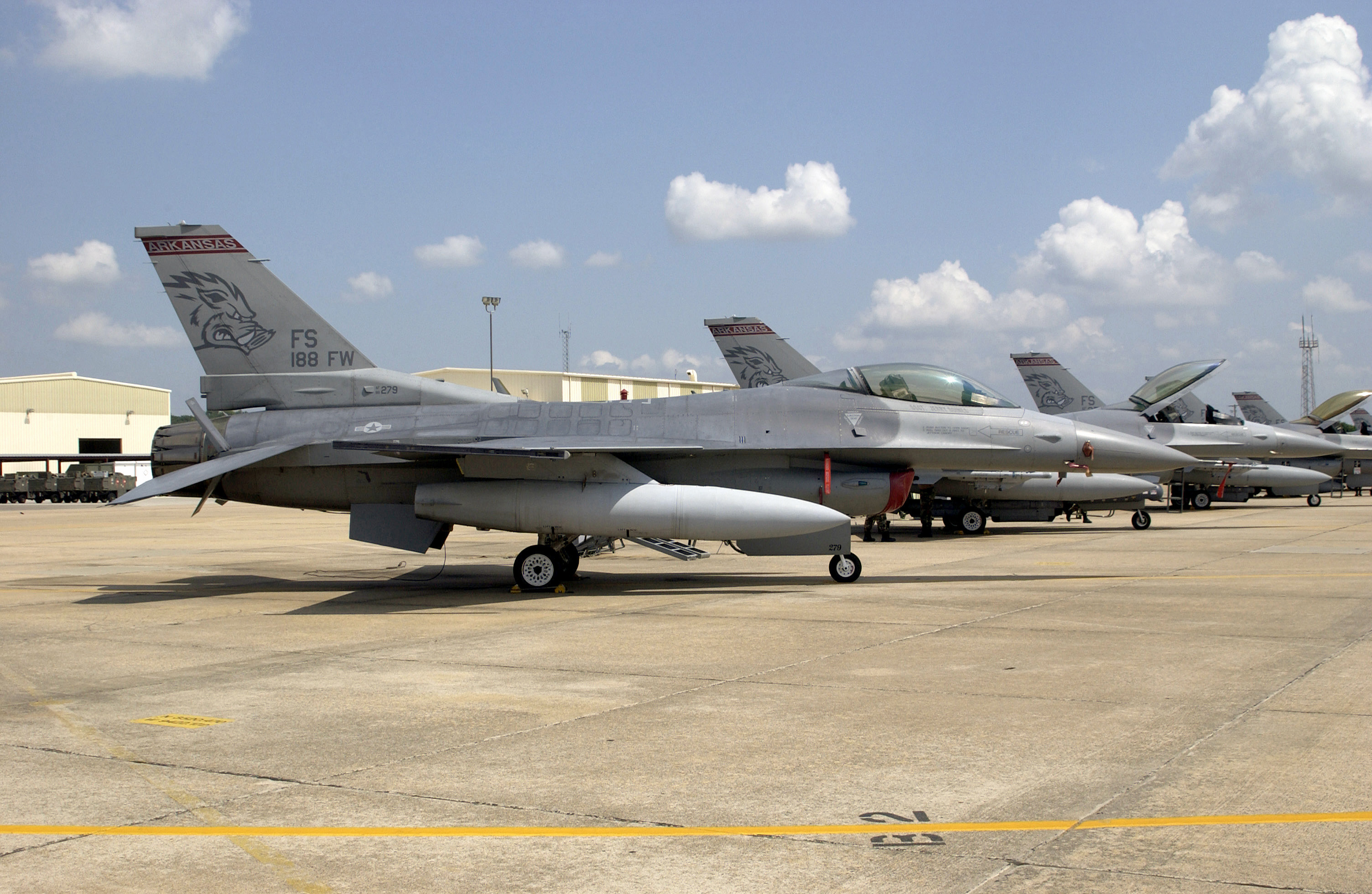 U.S. Air Force General Dynamics F-16C Fighting Falcon aircraft from the 184th Fighter Squadron Flying Razorbacks, 188th Fighter Wing, Arkansas Air National Guard, spotted on the tarmac at Fort Smith, Arkansas (USA), on 20 June 2002.